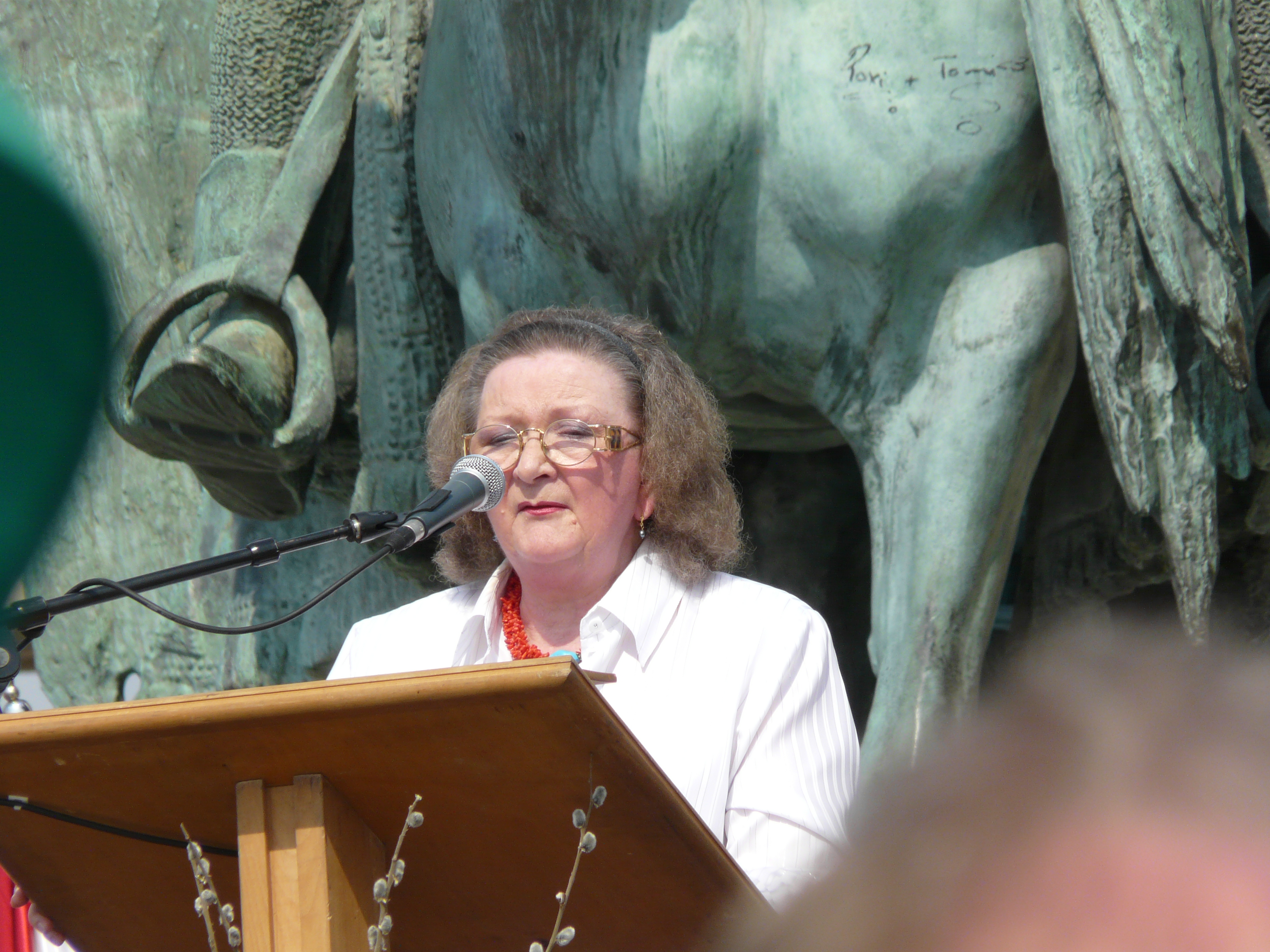 Anna Jókai at Hősök tere, April 2009. She participates in a rally protesting the measures planned by the government.